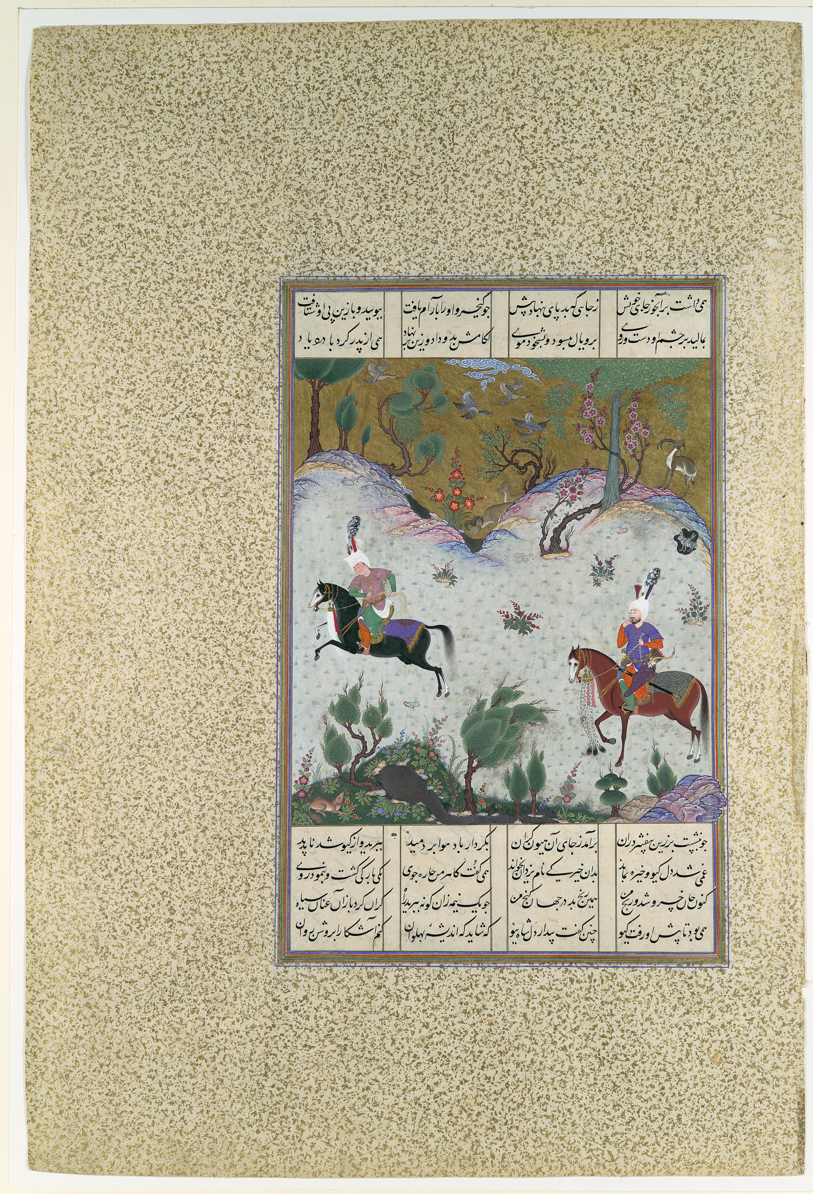 Folio from an illustrated manuscript; Codices